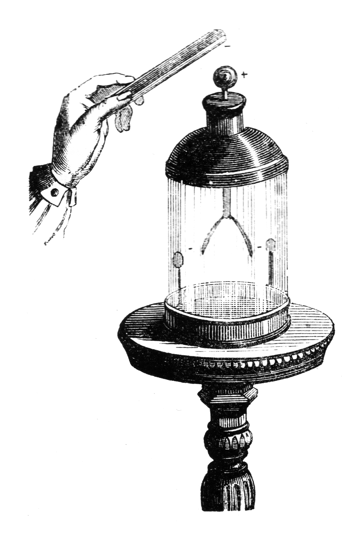 "Opfindelsernes Bog" (Book of inventions) 1878 by André Lütken, Ill. 284.